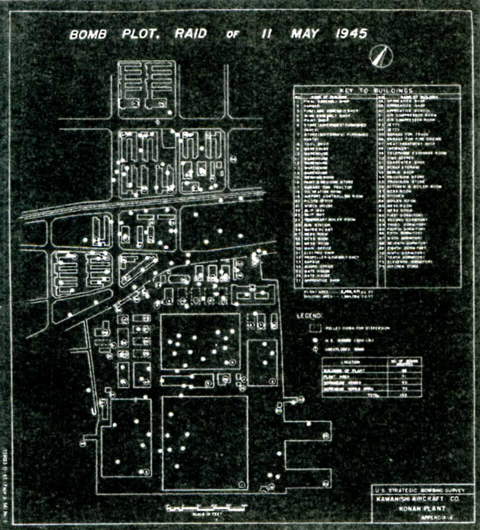 Points of impacts of 500-pound bombs on Konan factory, Kawanishi Aircraft Company.